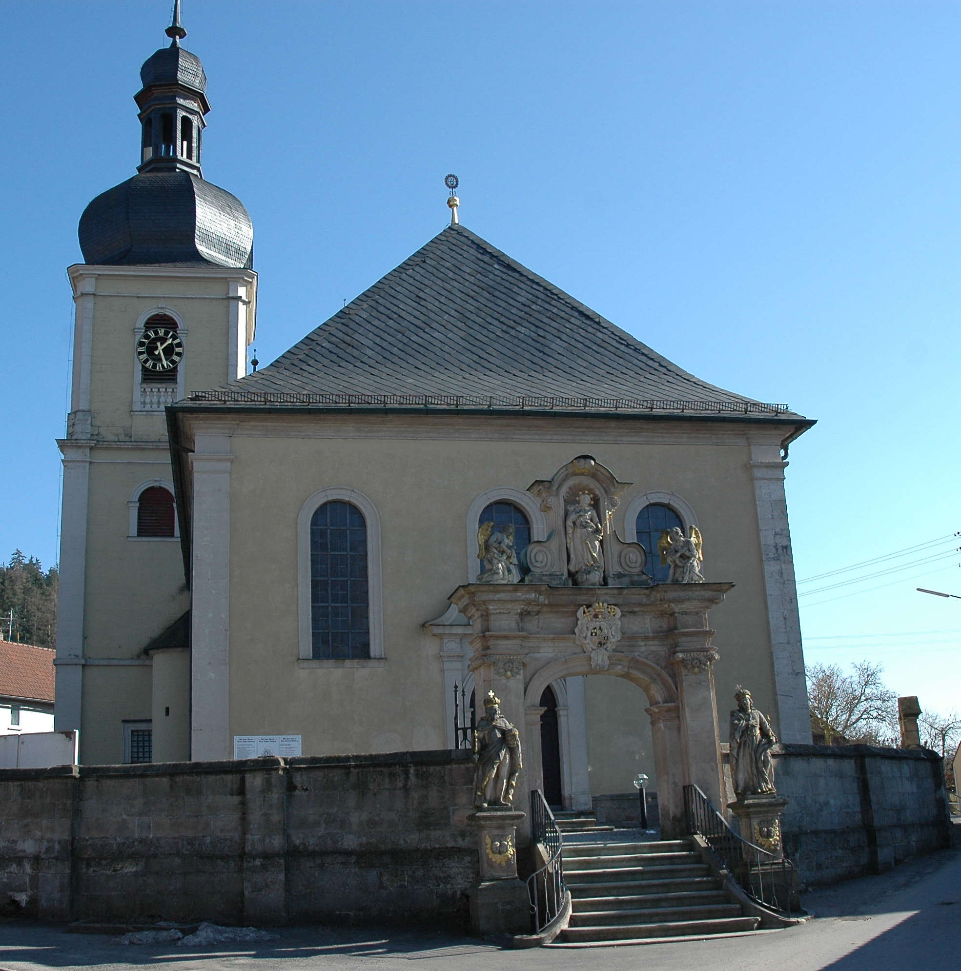 pilgrimage church "Mariä Geburt" of Glosberg